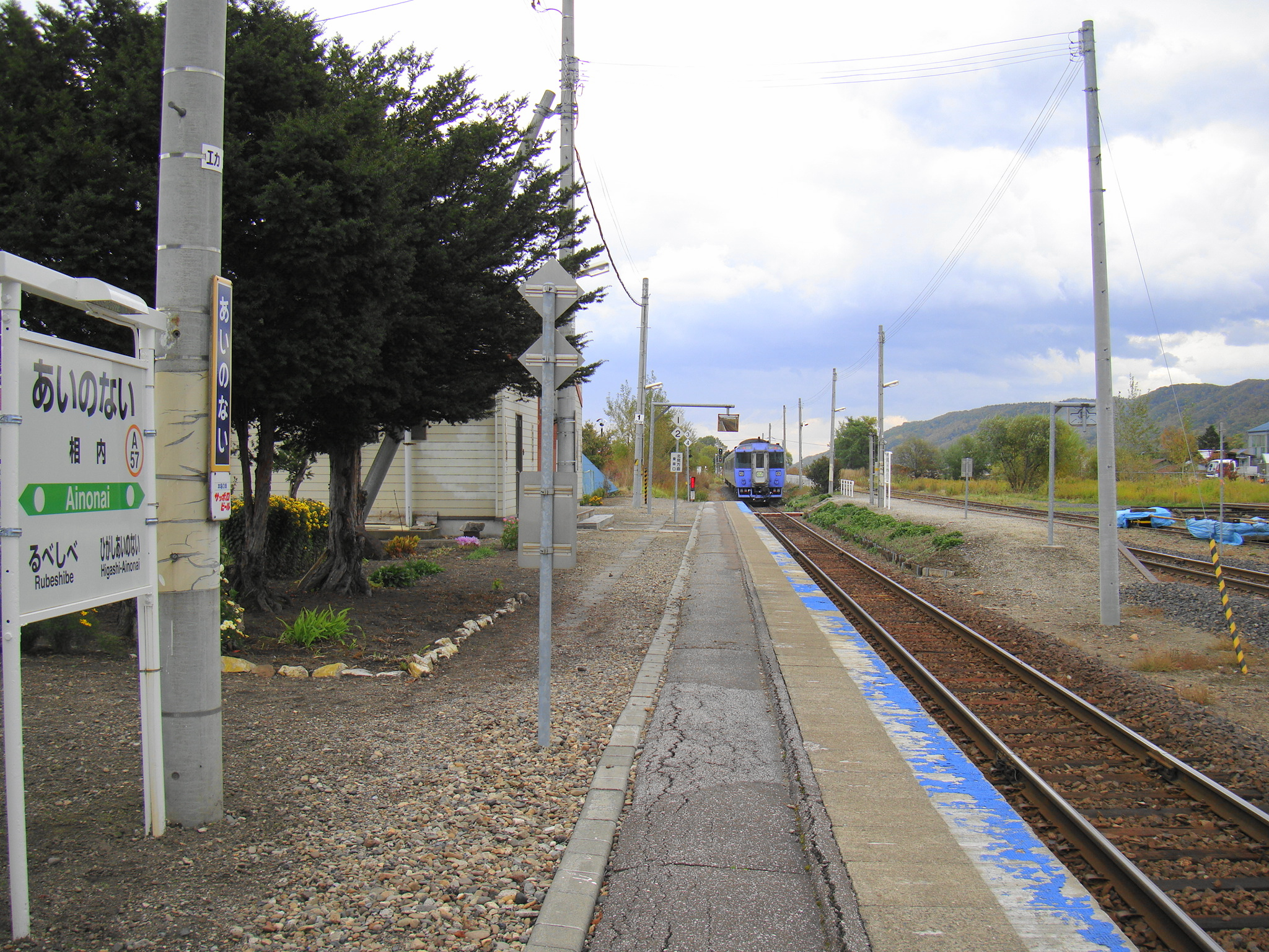 Ainonai Station